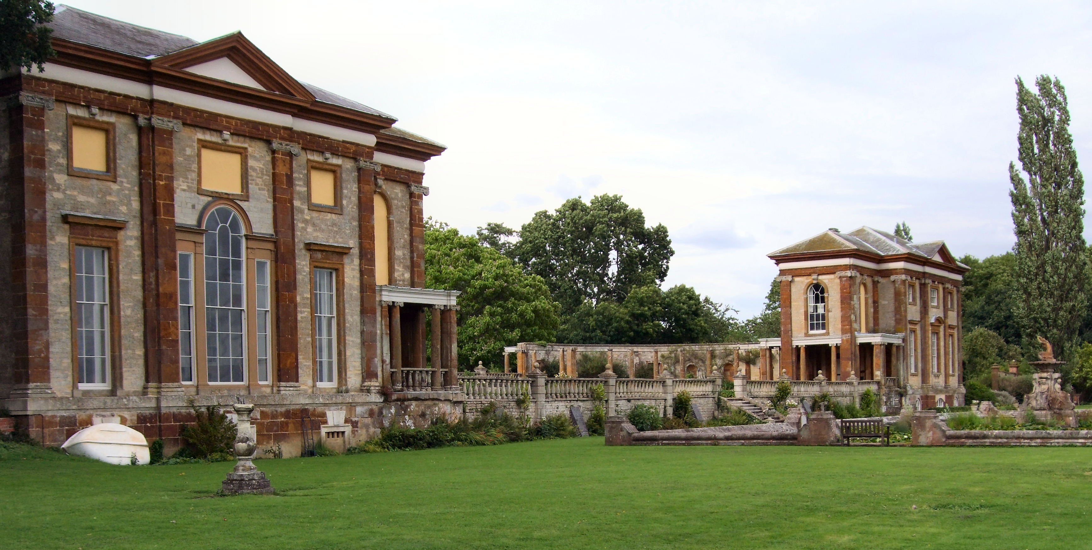 Stoke Park Pavilions, Stoke Park UK